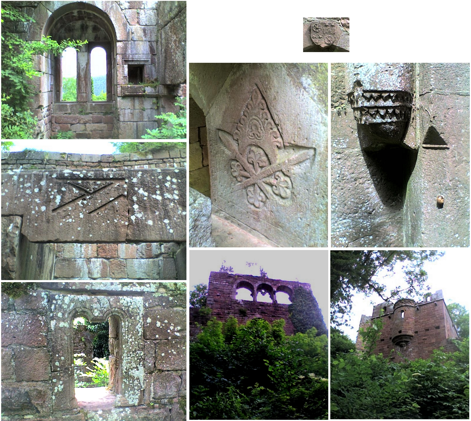 ornaments, windows and views of the castle Wildenberg (Odenwald)